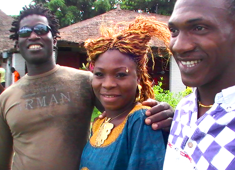 The 3 lead singers of the band Foliba Trio.